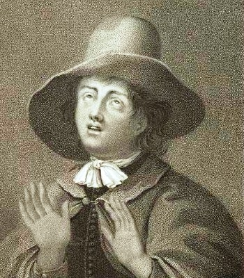 George Fox - Quaker founder aged 30 engraving from 1654 orig, painting